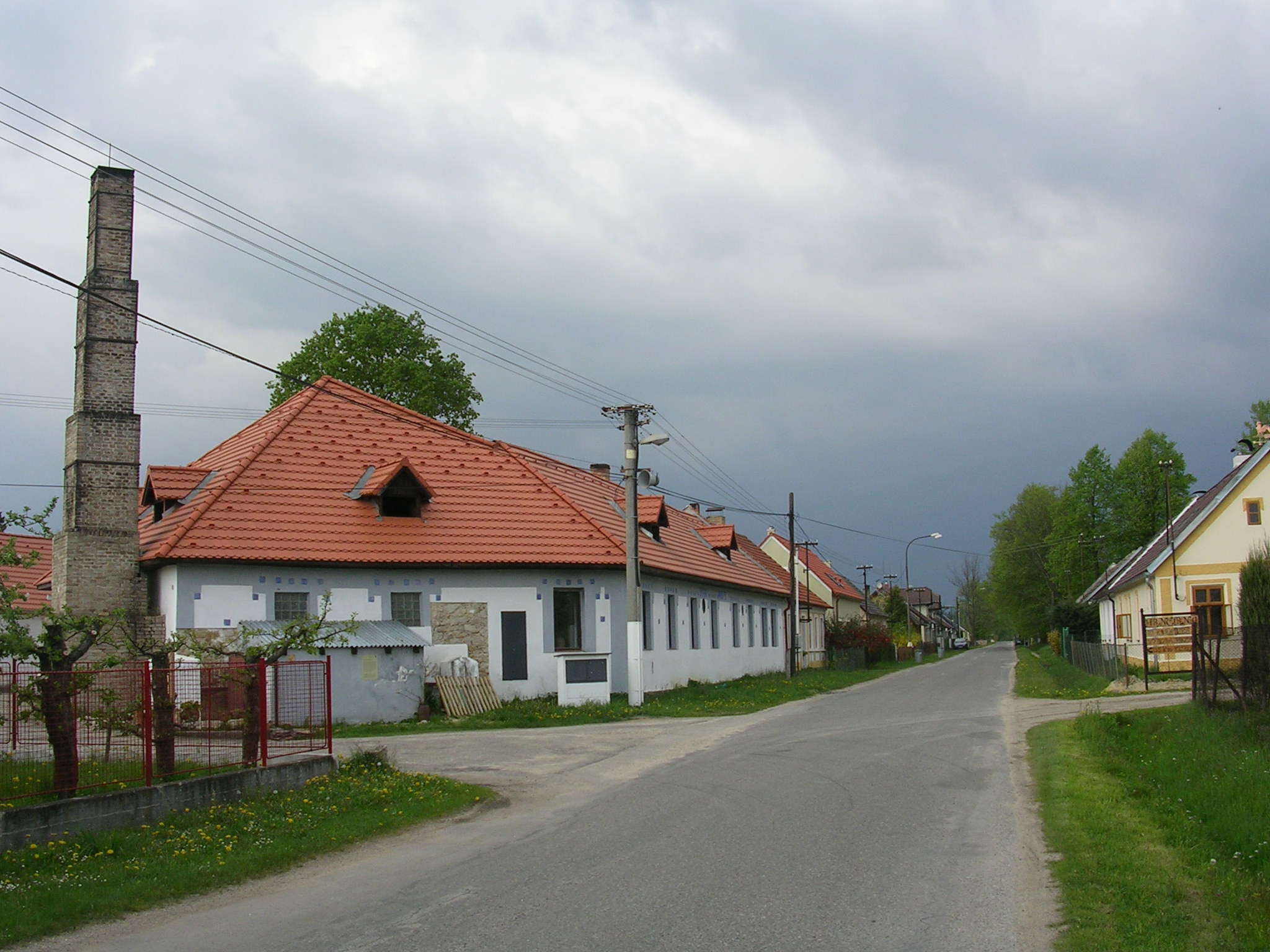 Suchdol nad Lužnicí-Klikov, South Bohemian Region, the Czech Republic.